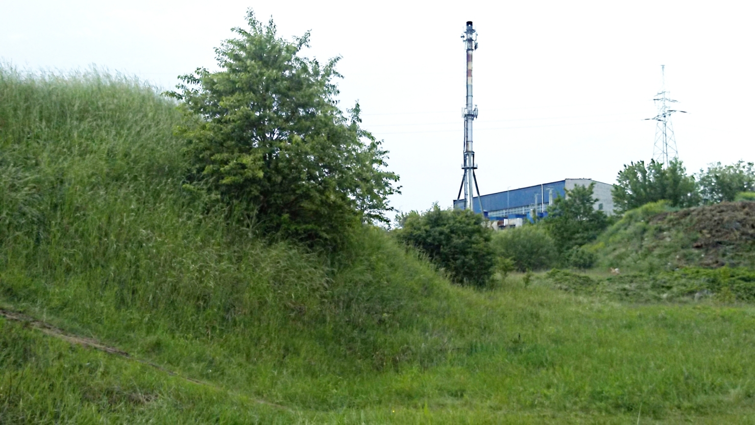 Former limestone mine, Batalionów Chłopskich Street, Tomaszów Mazowiecki